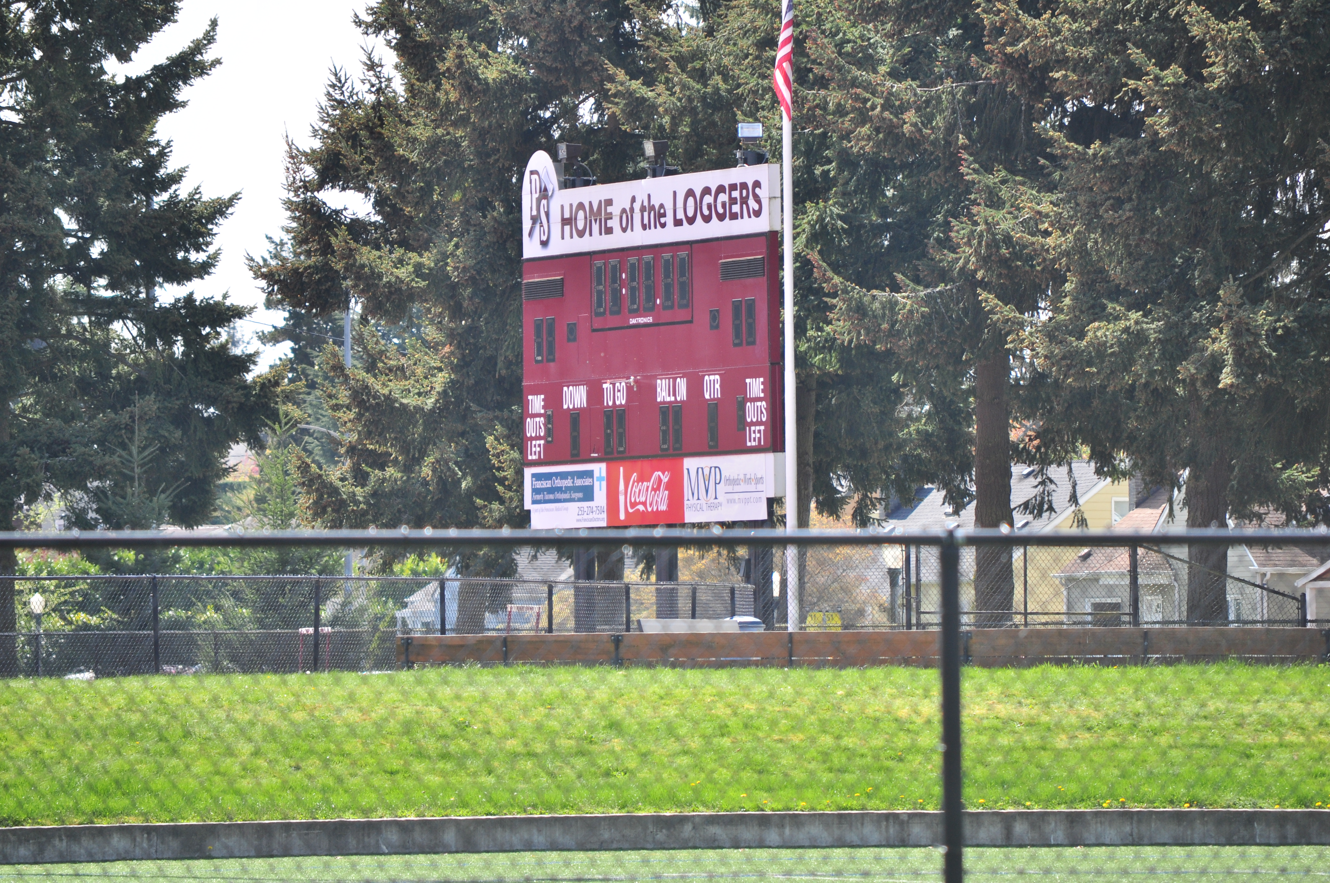 Scoreboard, Peyton Field, University of Puget Sound, Tacoma, Washington.